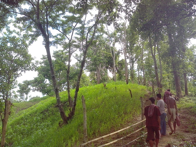 MGNREGA workers return after day's work in Ghantacherra, Ambassa block, Dhalai, Tripura